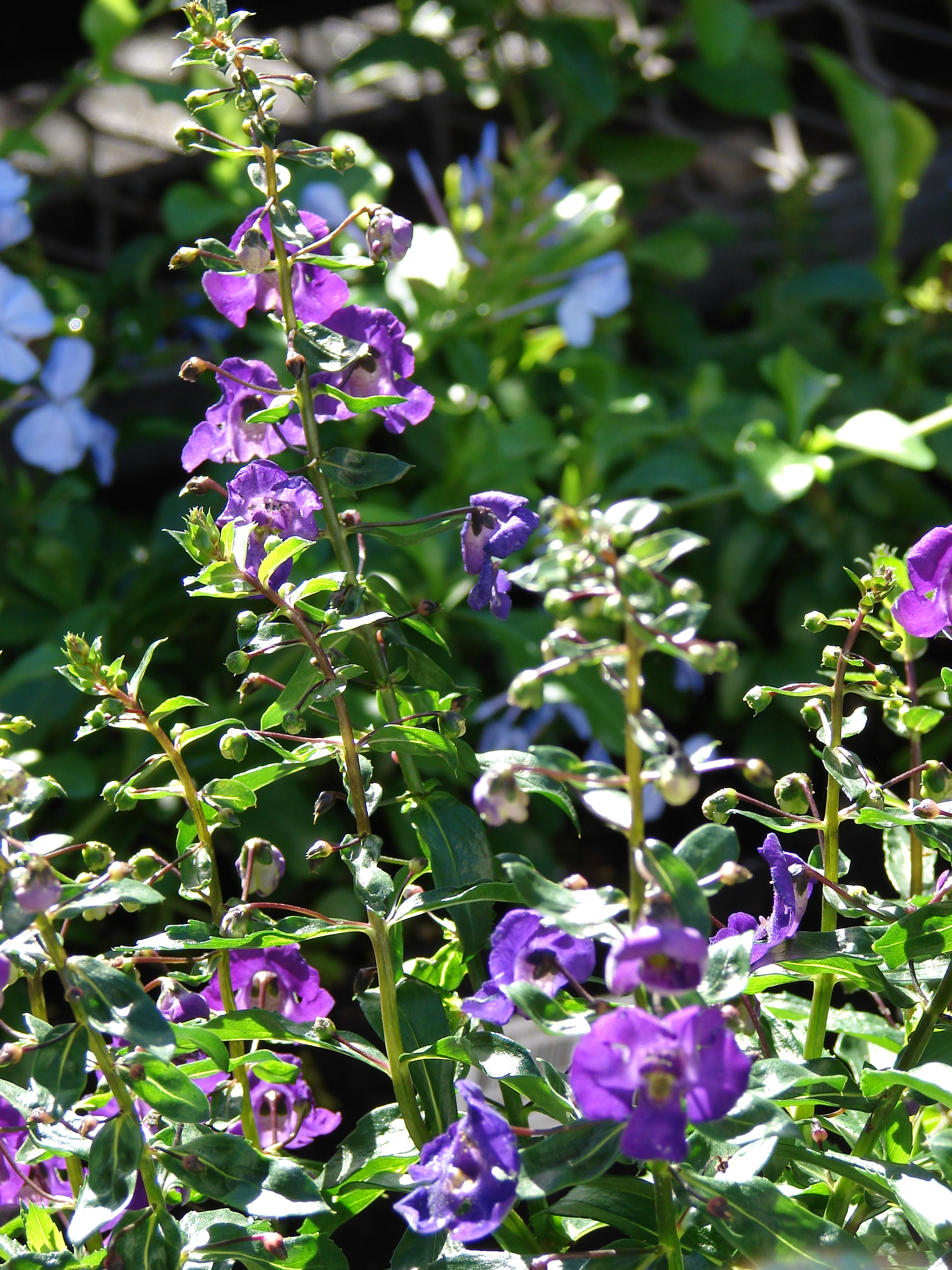 Angelonia angustifolia (Angel face dark violet flowering habit). Location: Maui, Lowes Garden Center Kahului